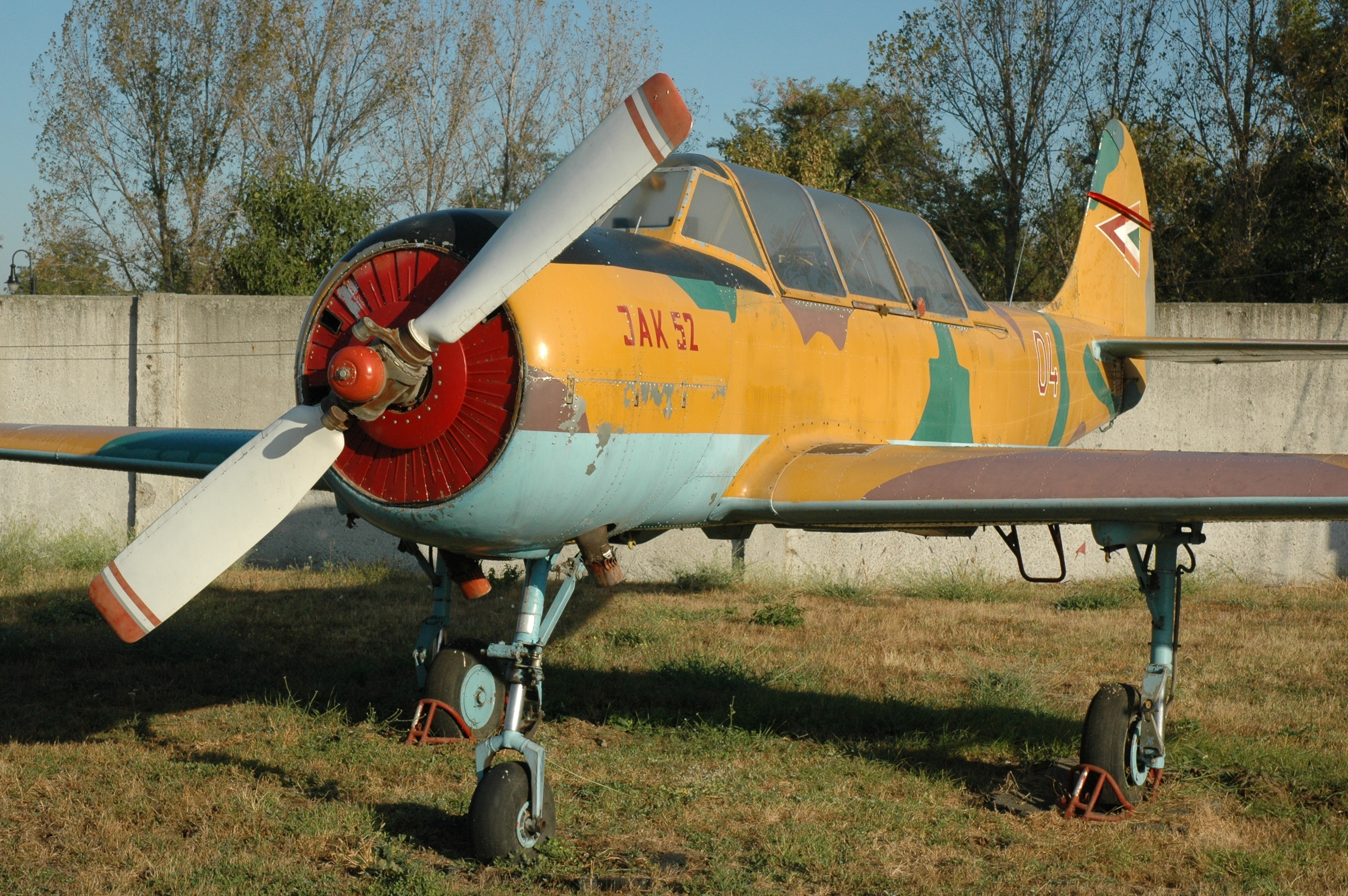 Yakovlev Yak-52 trainer aircraft (displayed at the Museum of Hungarian Aviation in Szolnok)